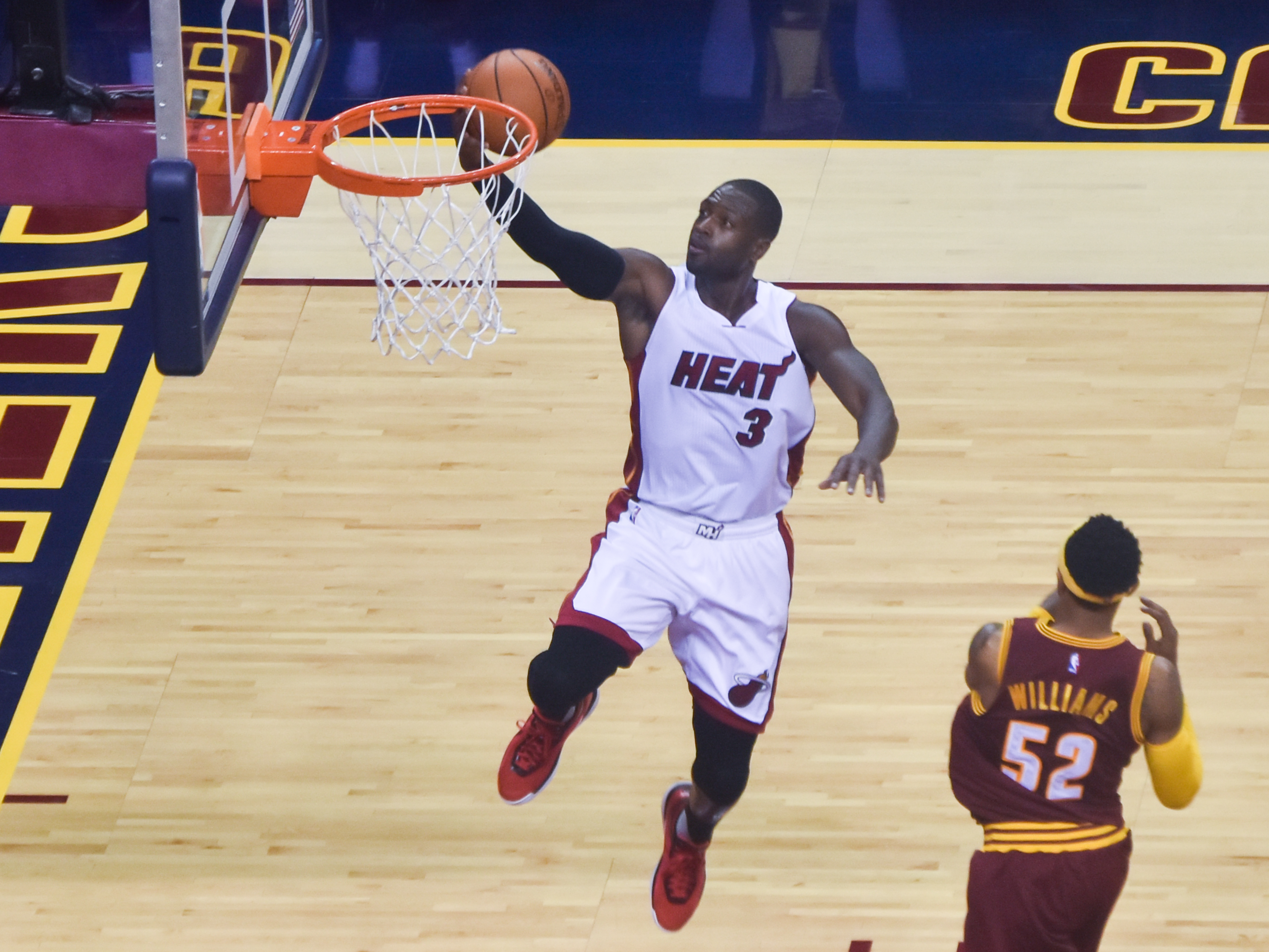 Dwyane Wade, 2015-16 season.